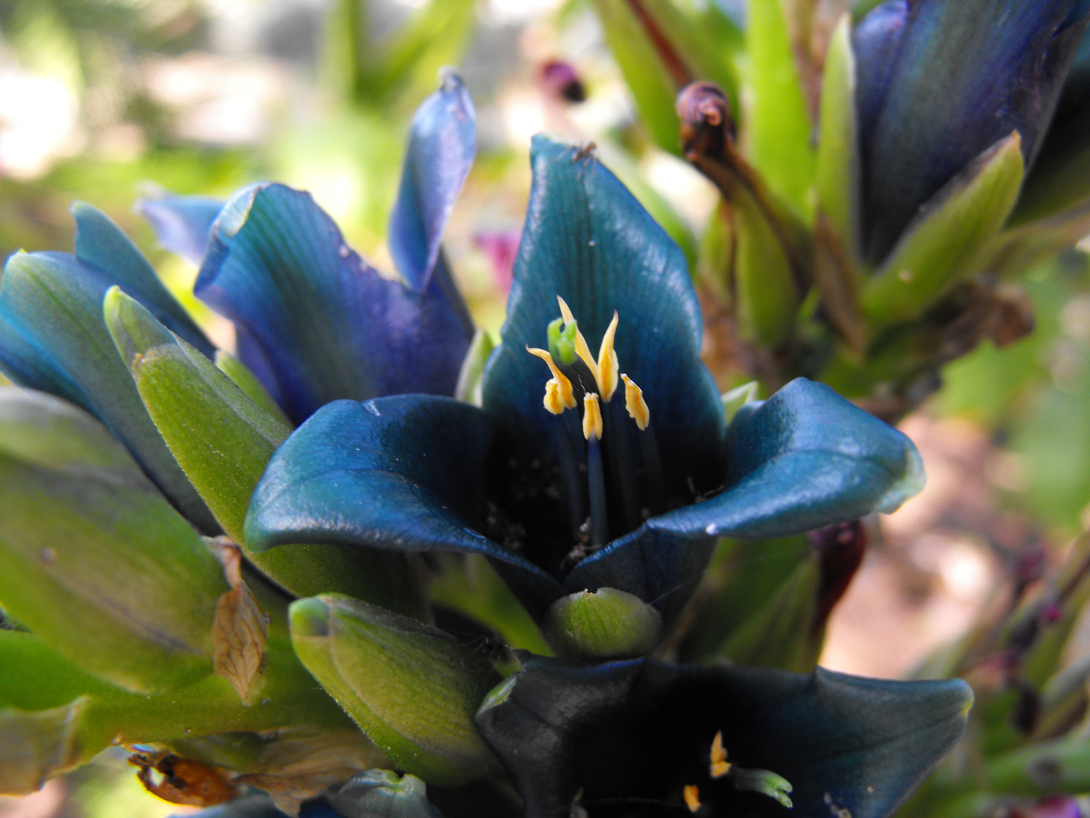 Puya alpestris with blue flowers. At the San Diego Botanic Garden (formerly Quail Botanical Gardens) in Encinitas, California.